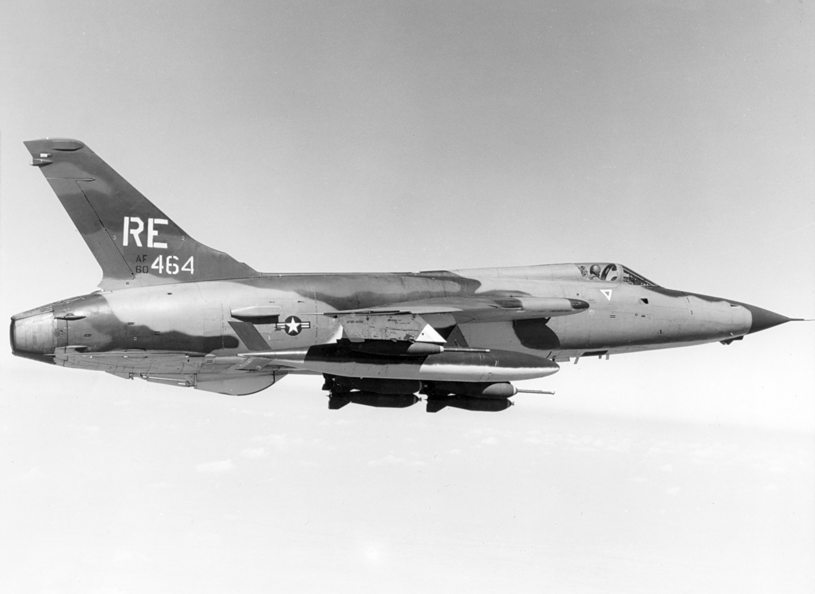 A U.S. Air Force Republic F-105D-10-RE Thunderchief (s/n 60-0464) from the 44th Tactical Fighter Squadron, 355th Tactical Fighter Wing, based at Takhli Royal Thai Air Force base from 15 October 1969 to 10 December 1970. The aircraft is armed with six Mk 117 bombs and two Mk 82 bombs, four of which are fitted with "daisy cutter" distant fuses. 60-0464 was retired to the MASDC as FK0078 on 29 January 1982.